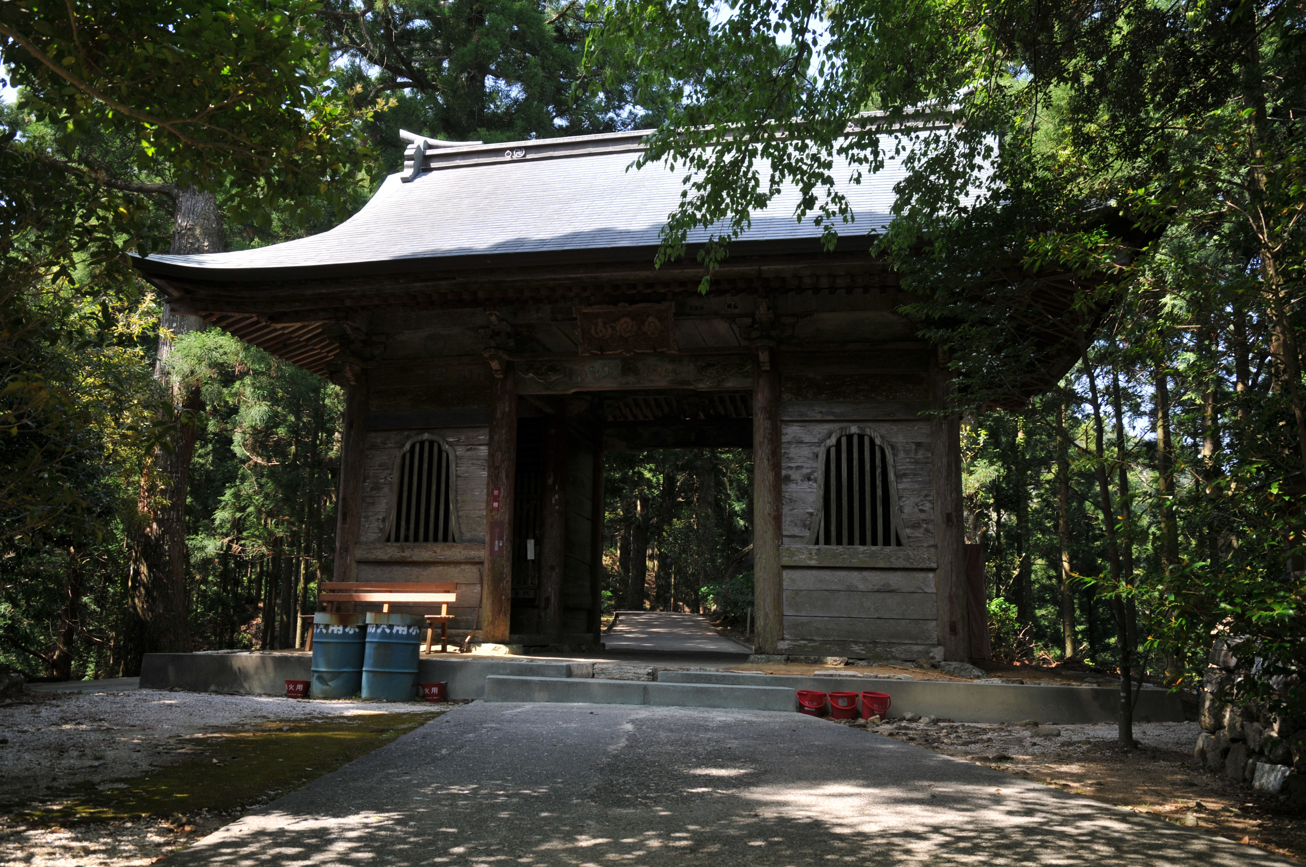 Temple gate, Tairyū-ji